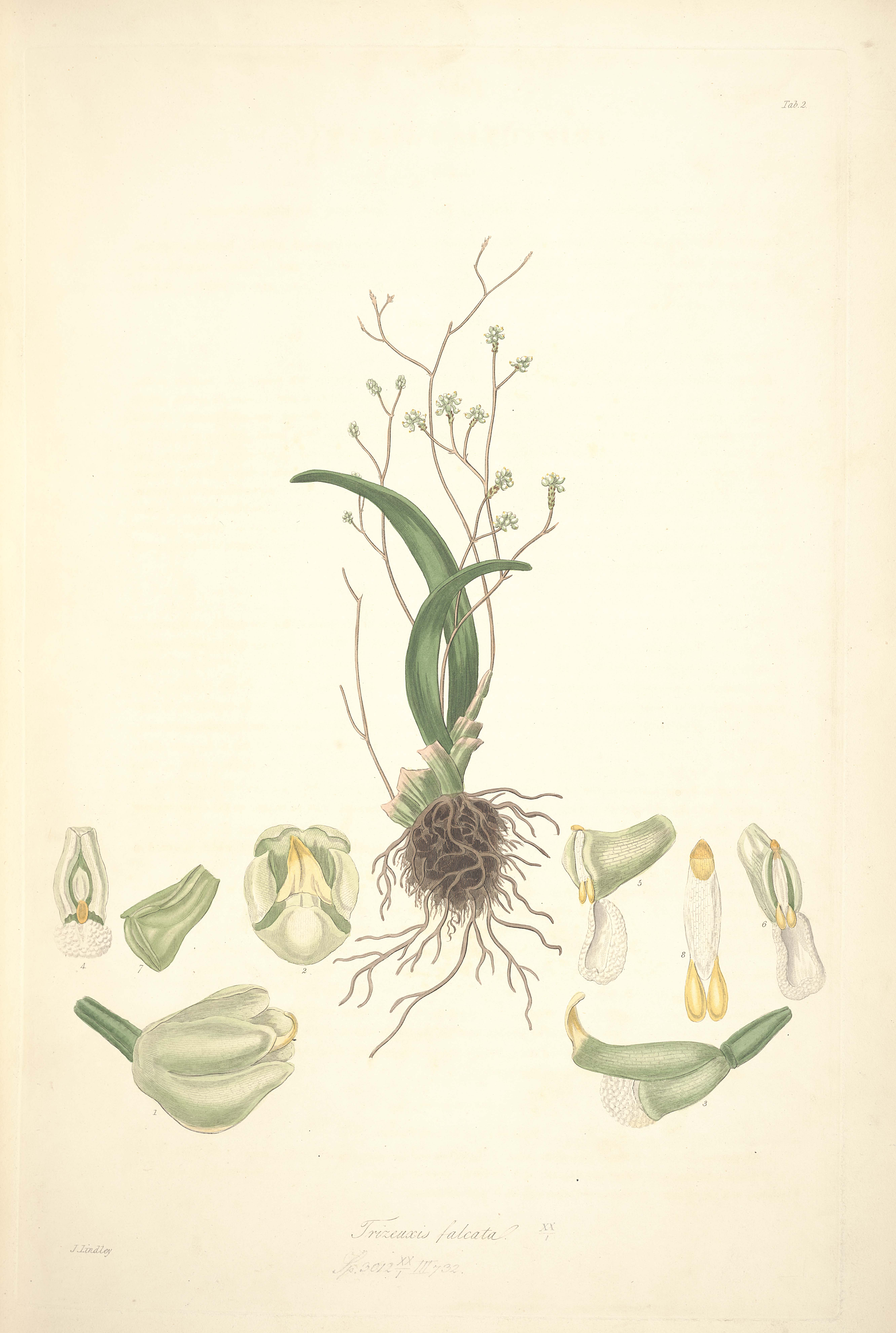 Illustration from John Lindley's "Collectanea botanica or, figures and botanical illustrations of rare and curious exotic plants" Trizeuxis Falcata